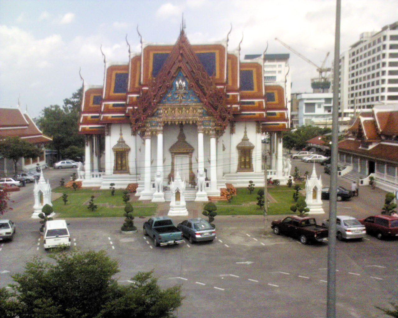 Wat Om Rin Thra Ram Worawihan